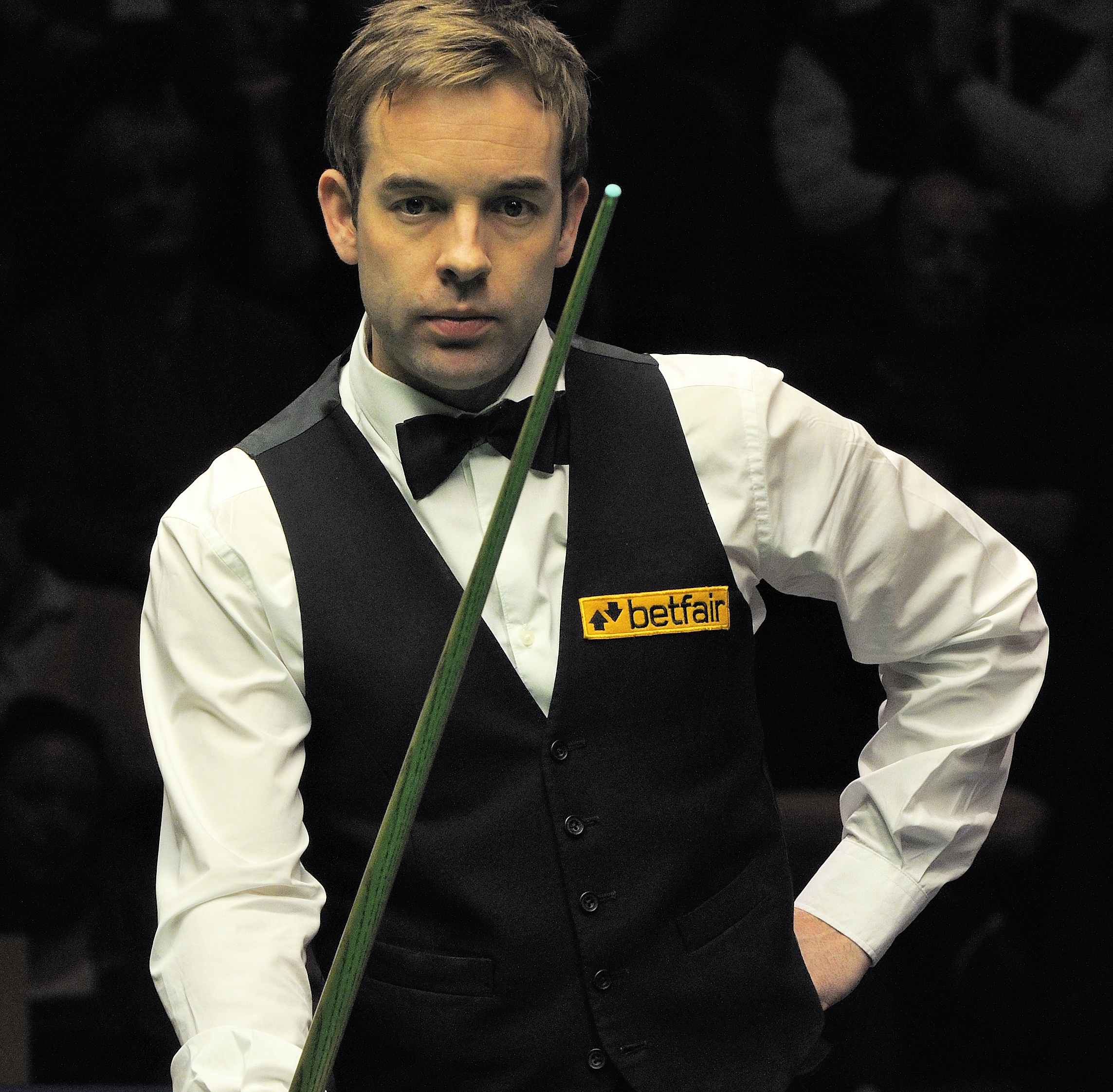 Picture taken in Berlin during the Snooker German Masters in 2013. Ali Carter.